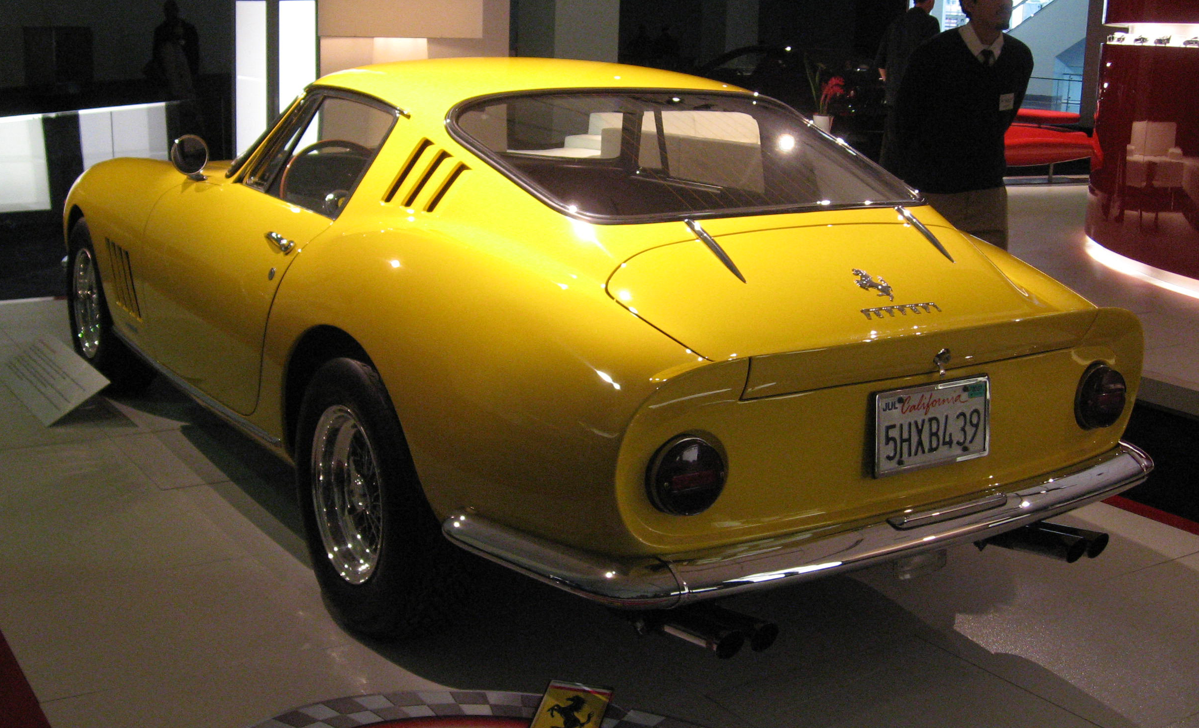 Image of a 1967 Ferrari_275, taken at the 2007 LA Auto Show.